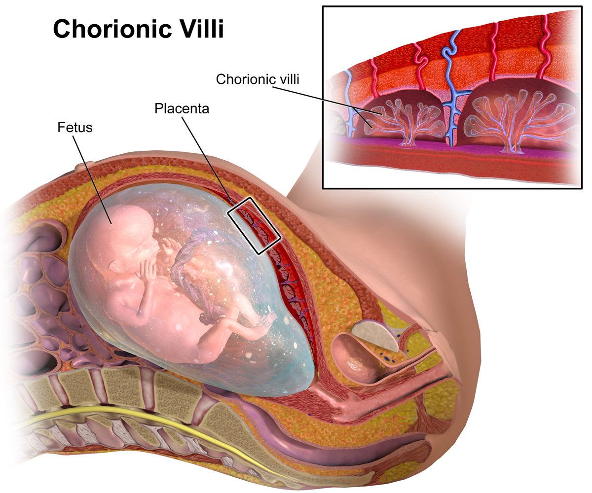 ChorionicVillus. See a full animation of this medical topic.